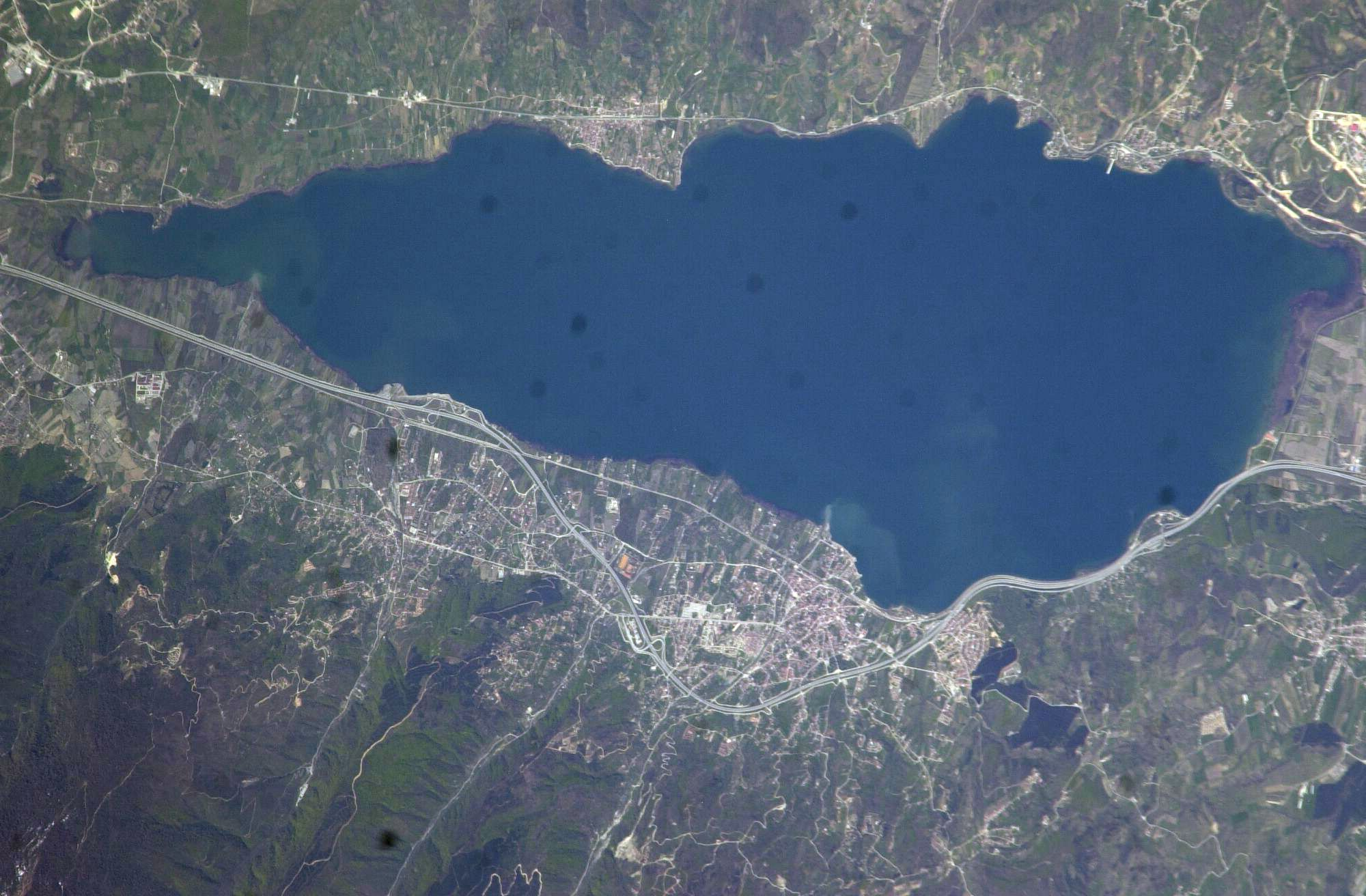 Lake SapancaTürkçe: Sapanca Gölü